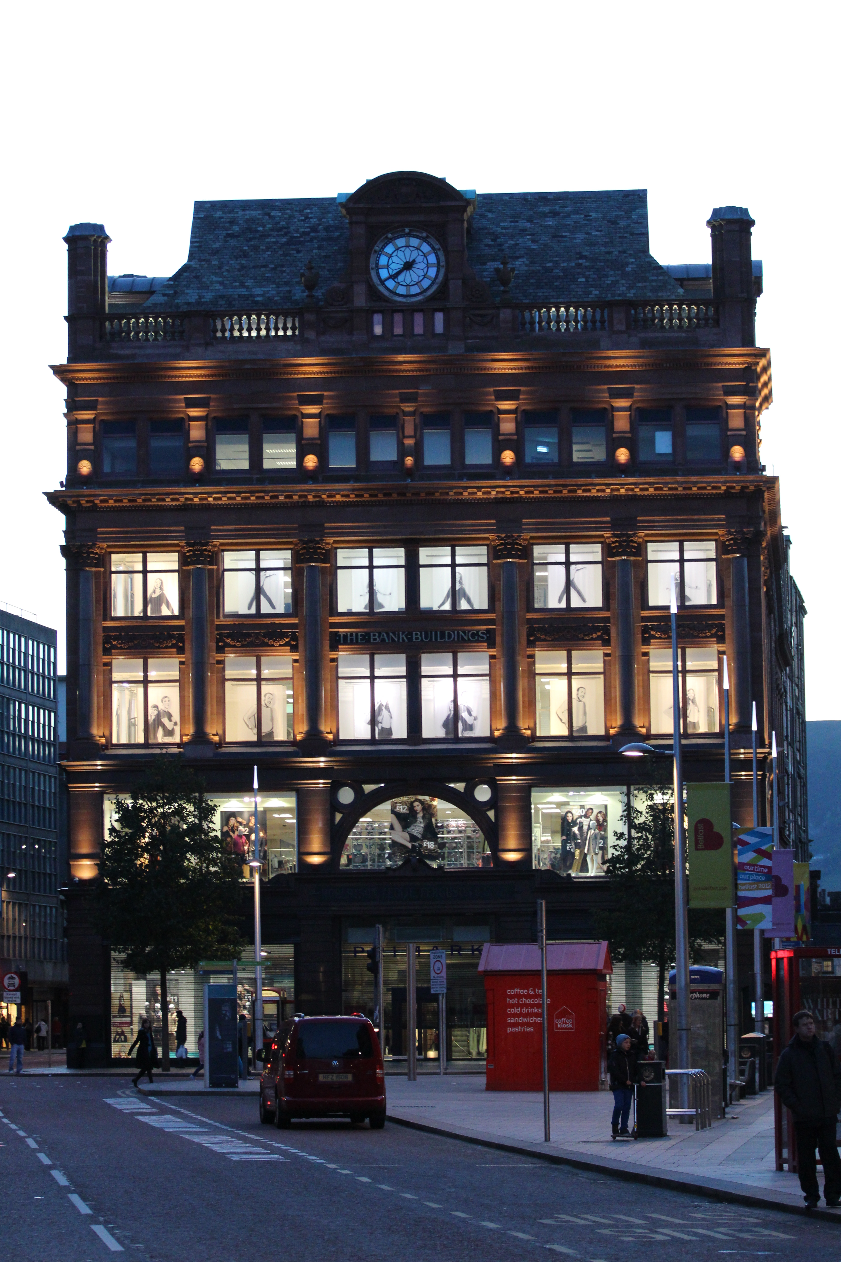 The Bank Buildings, Castle Place, Belfast, Northern Ireland, September 2012